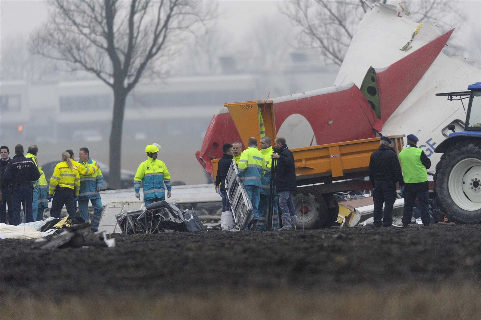 Crash site of Turkish Airlines Flight 1951, Boeing 737-8F2 (TC-JGE, "Tekirdağ"), at Schiphol Airport, near Amsterdam, The Netherlands. 25 February 2009; Copyright Fred Vloo / RNW